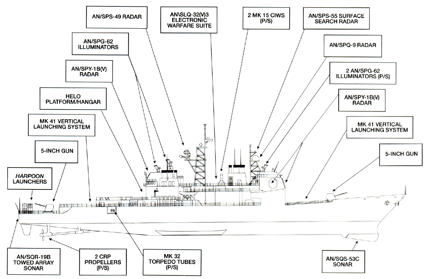 Line drawing of a U.S. Navy Ticonderoga-class guided missile cruiser, showing weapons and sensors of the VLS-equipped ships, in 1994.